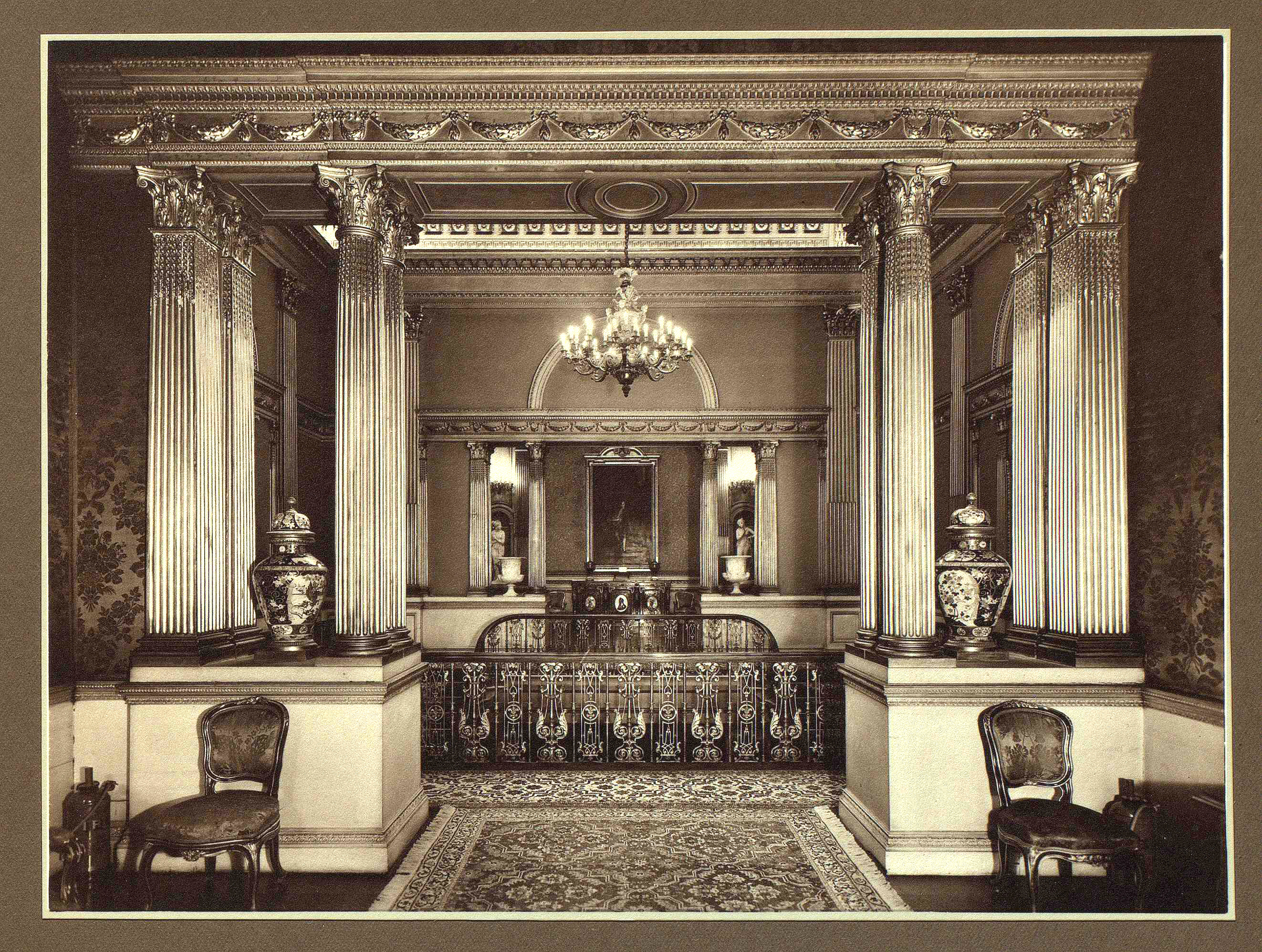 Creator: unknown Date: 1920s Original Format: Photographic print Description: Interior of Londonderry House, Park Lane, London c.1920s PRONI Ref: D4567/2/23 Copying and copyright: Please For Copy Orders, contact